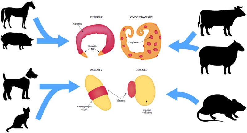 Cartoon illustrating the diversity of placental morphologies encountered in placental mammals